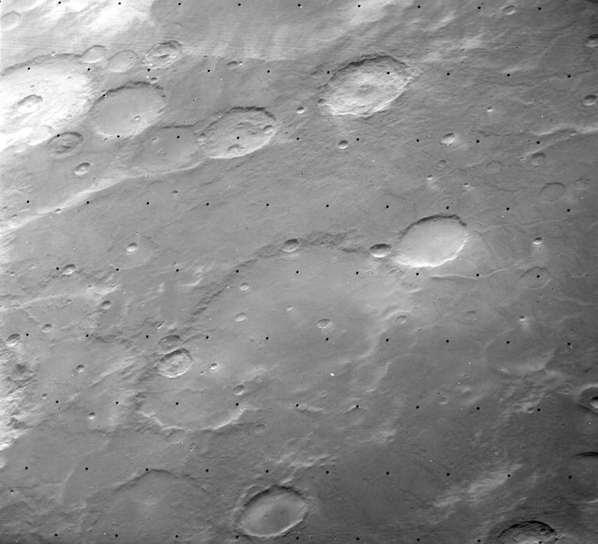 Oblique view of Barth crater (center) on Mars. Viking Orbiter 1 image from camera A (655A75). Red filter was used for this image. Resolution is about 276 m/pixel. North is to upper left. Emission Angle: 49.3 Incidence Angle: 60.7 Latitude: -7.5 Longitude: 26.2 Phase Angle: 106.1